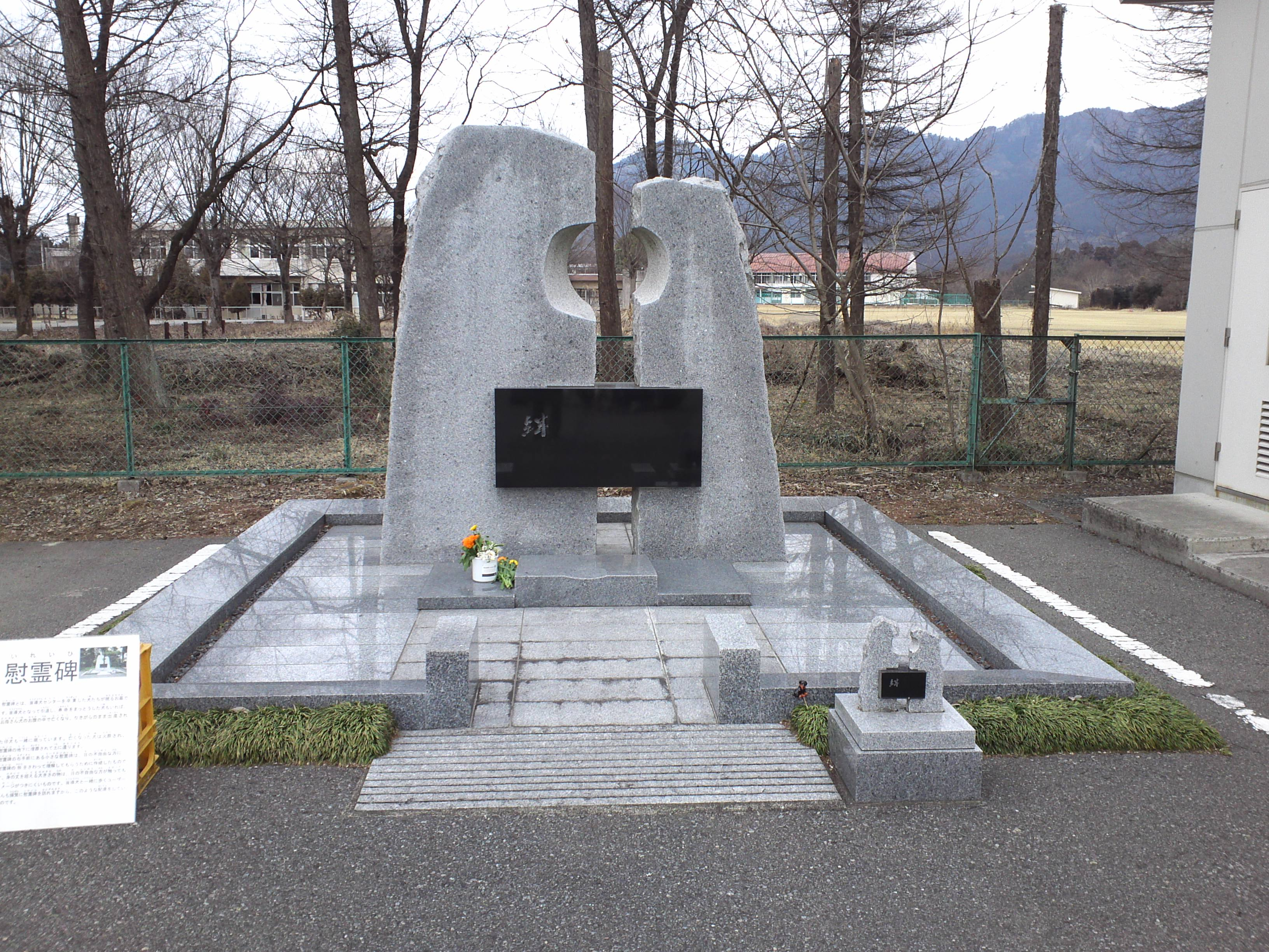 East Japan Guide Dog Association